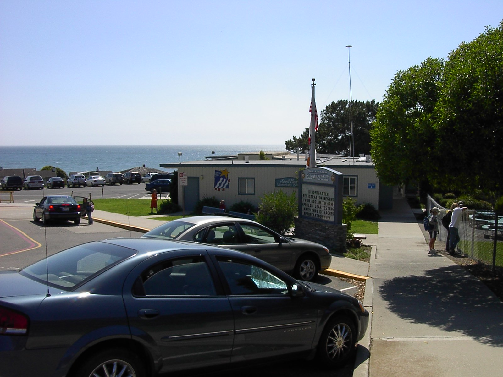 Shell Beach Elementary School, Pismo Beach, CA. Taken May 2005 by J. Perreault